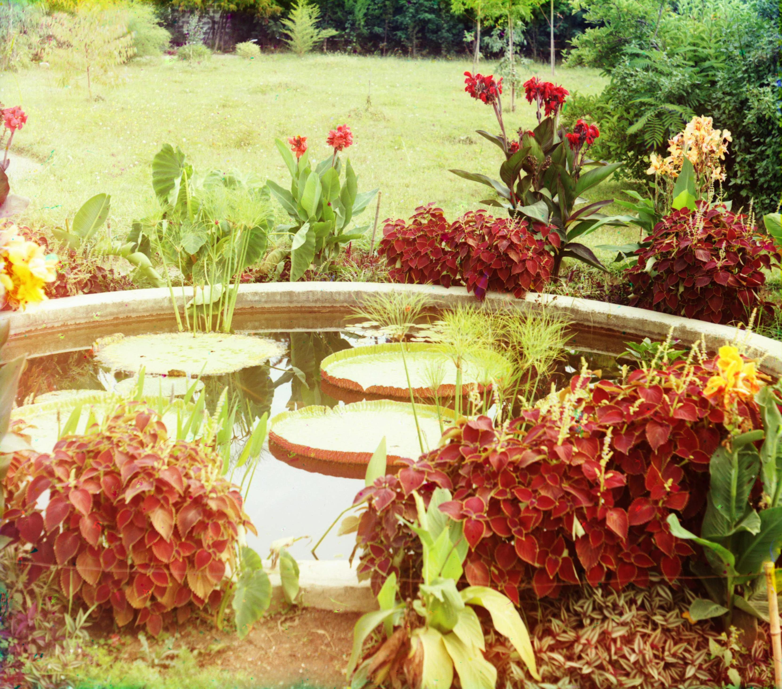 Victoria regia. Grown outdoors in Europe for the first time. Planted in June 1912. Botanical garden in Sukhumi